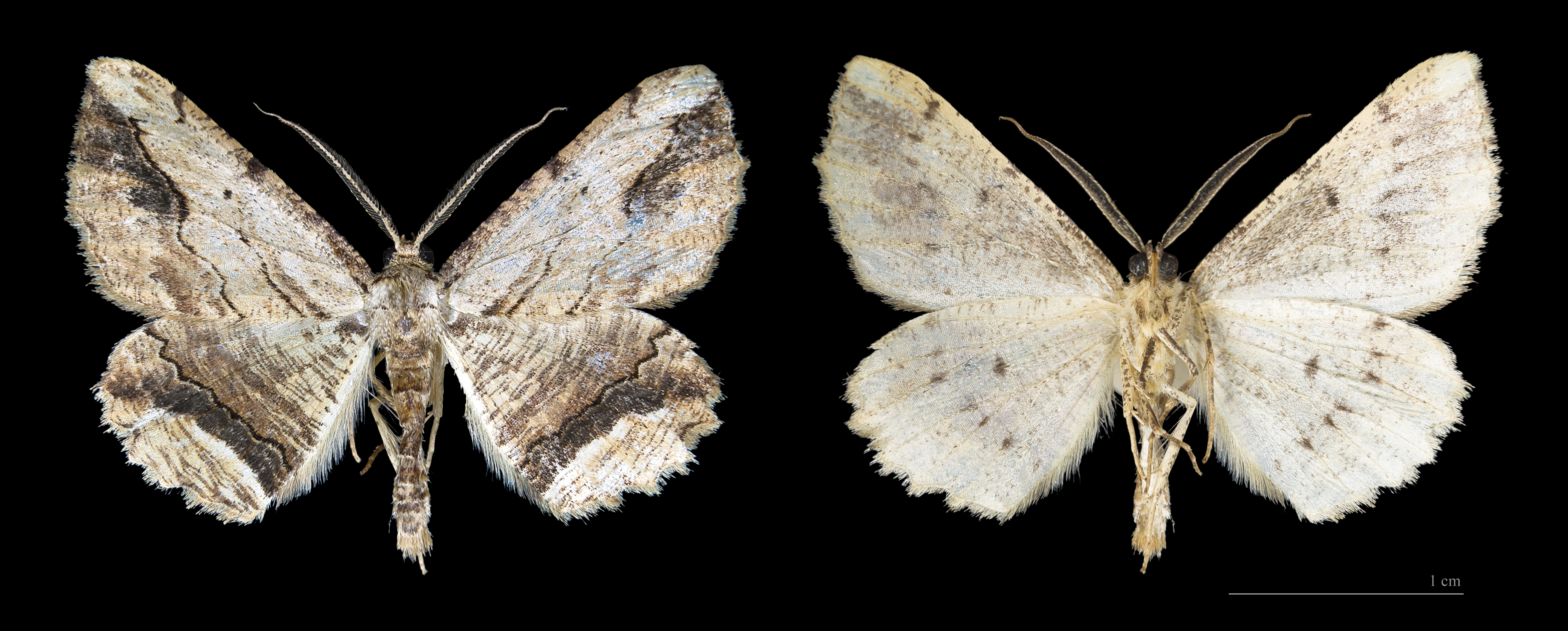 Waved Umber ♂ - Two views of same specimen Locality:Lasparets, Sainte-Croix-Volvestre, Ariège, France